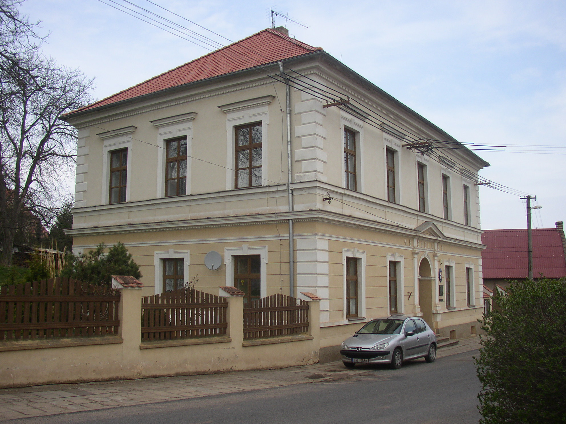 Municipal office building in village of Pnětluky, Louny District, Ústí nad Labem Region, Czech Republic.